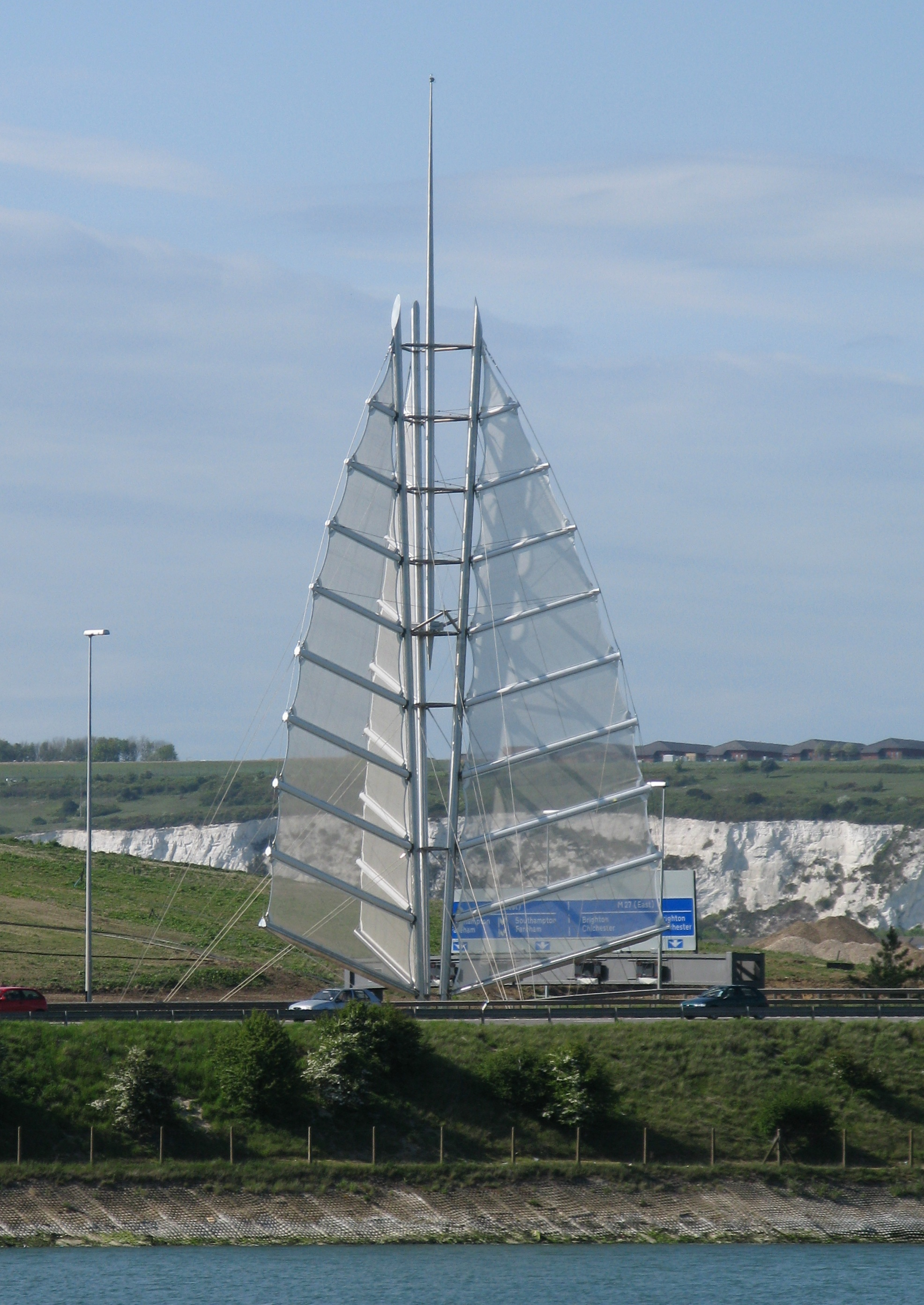 Photo of the Sails of the South in portsmoth taken across Tipner lake